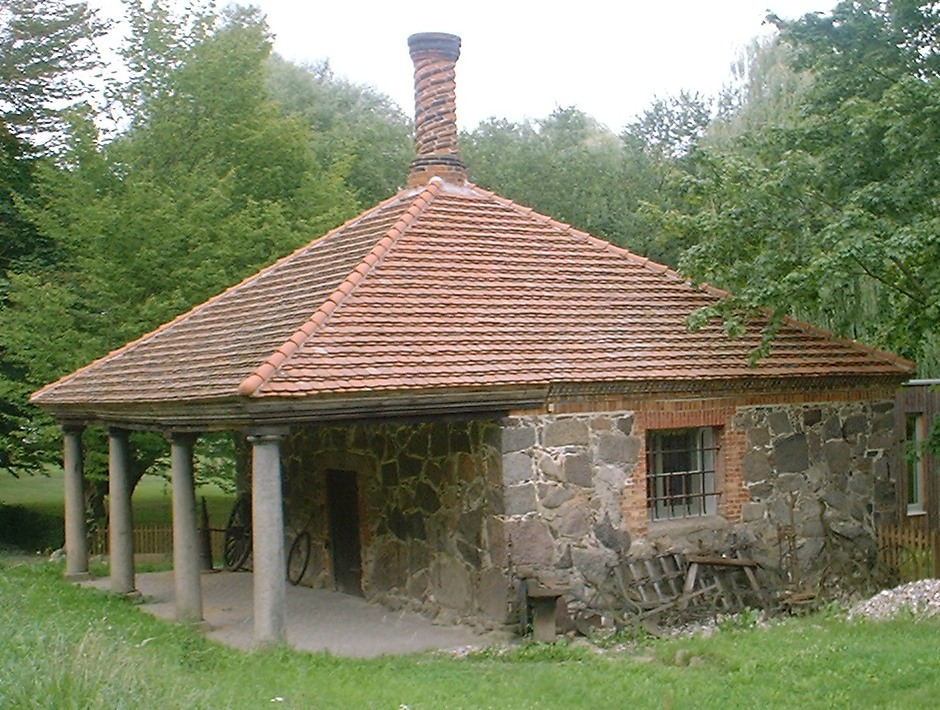 Smithy in Burg Schlitz in Mecklenburg-Western Pomerania, Germany